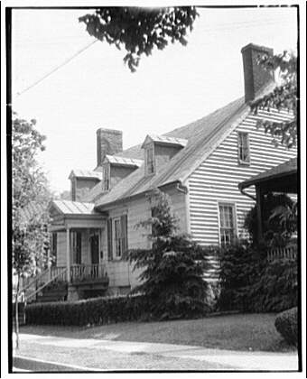 Rising Sun Tavern, Fredericksburg, Virginia. Exterior of Rising Sun Tavern.